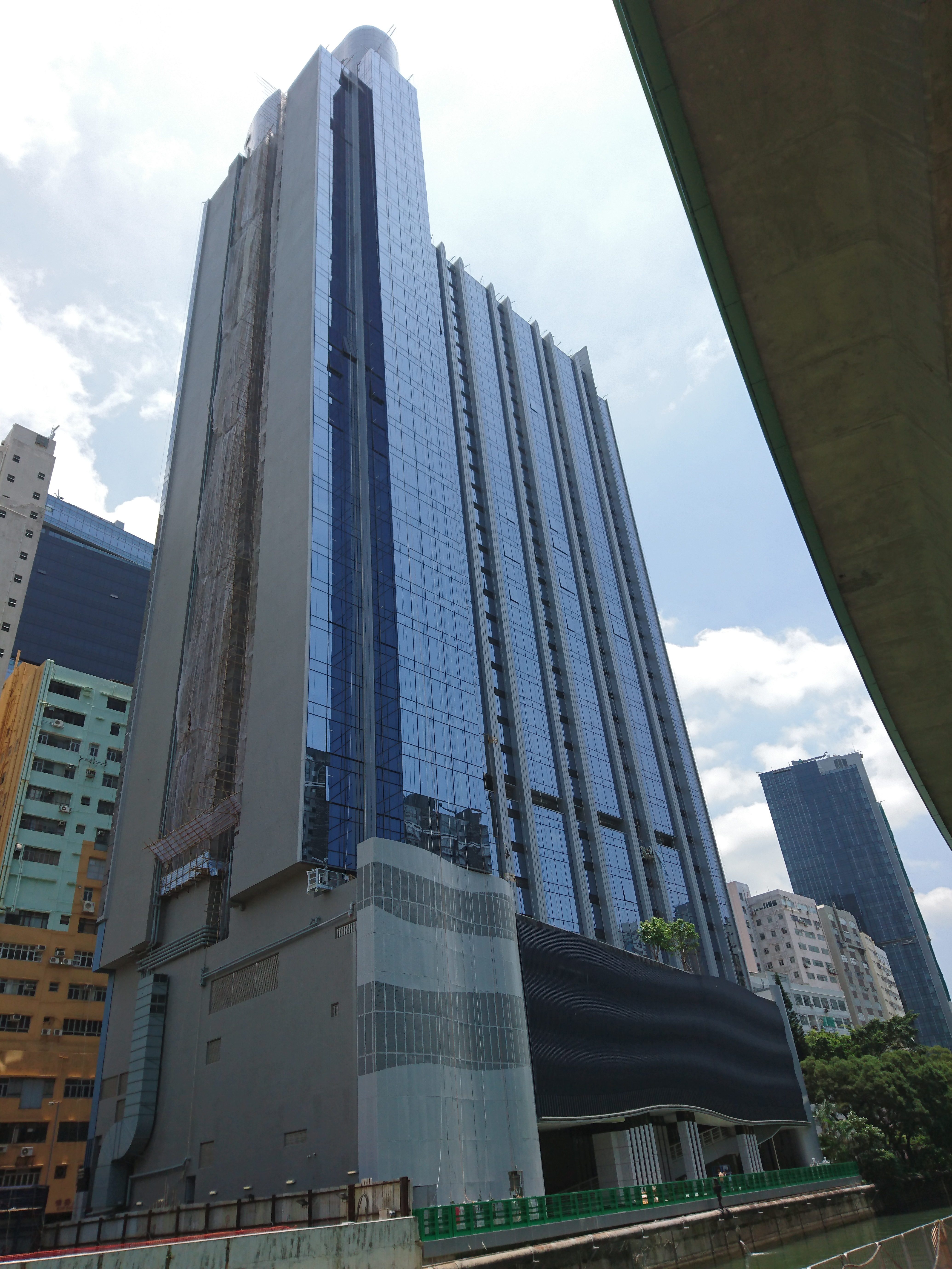 43 Heung Yip Road Hotel Devlopement in 2016 (2)